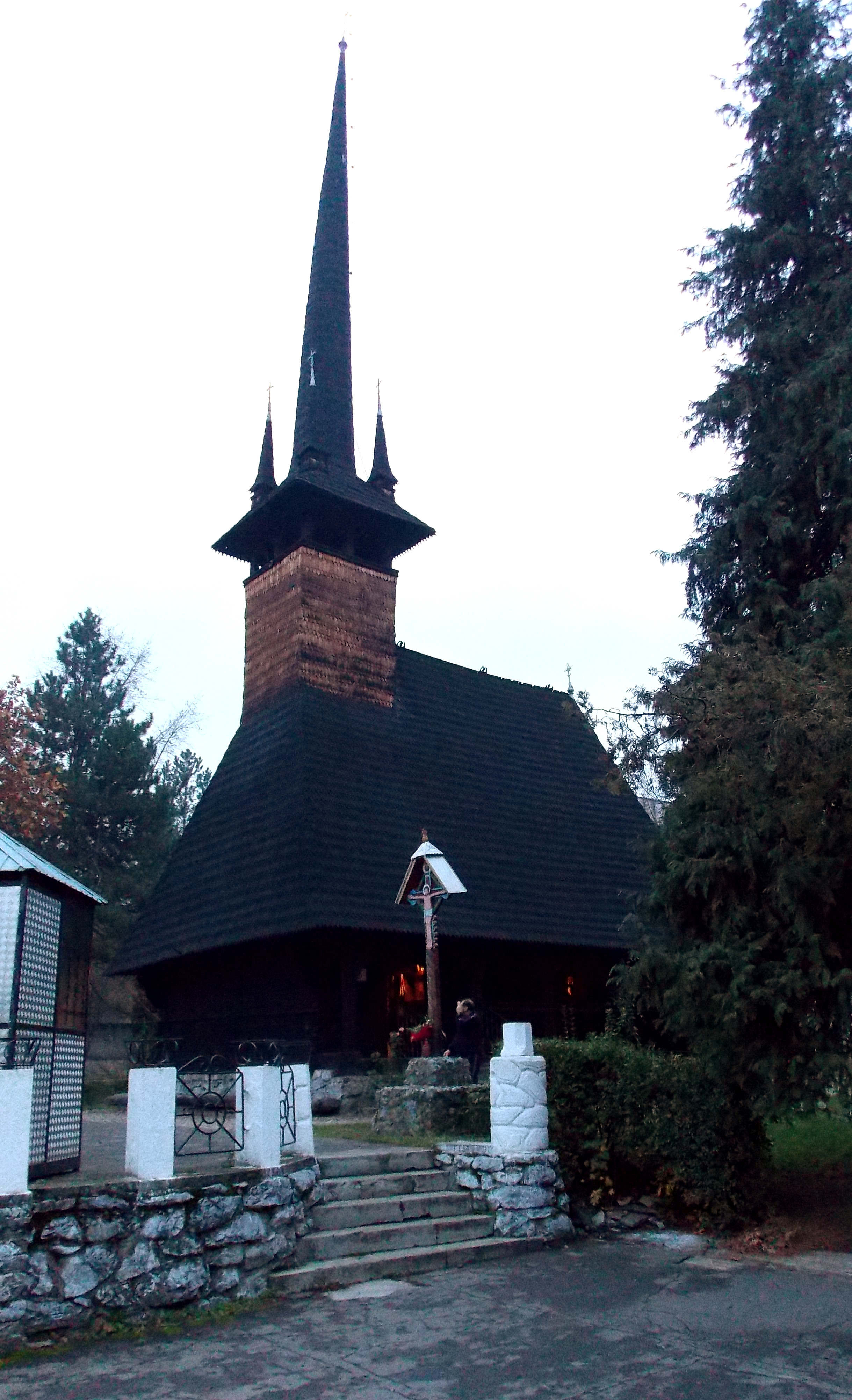 Orthodox Wooden Church - Baile Felix, RomaniaRomână: Biserica ortodoxă de lemn "Sf. Arhangheli" - Băile Felix